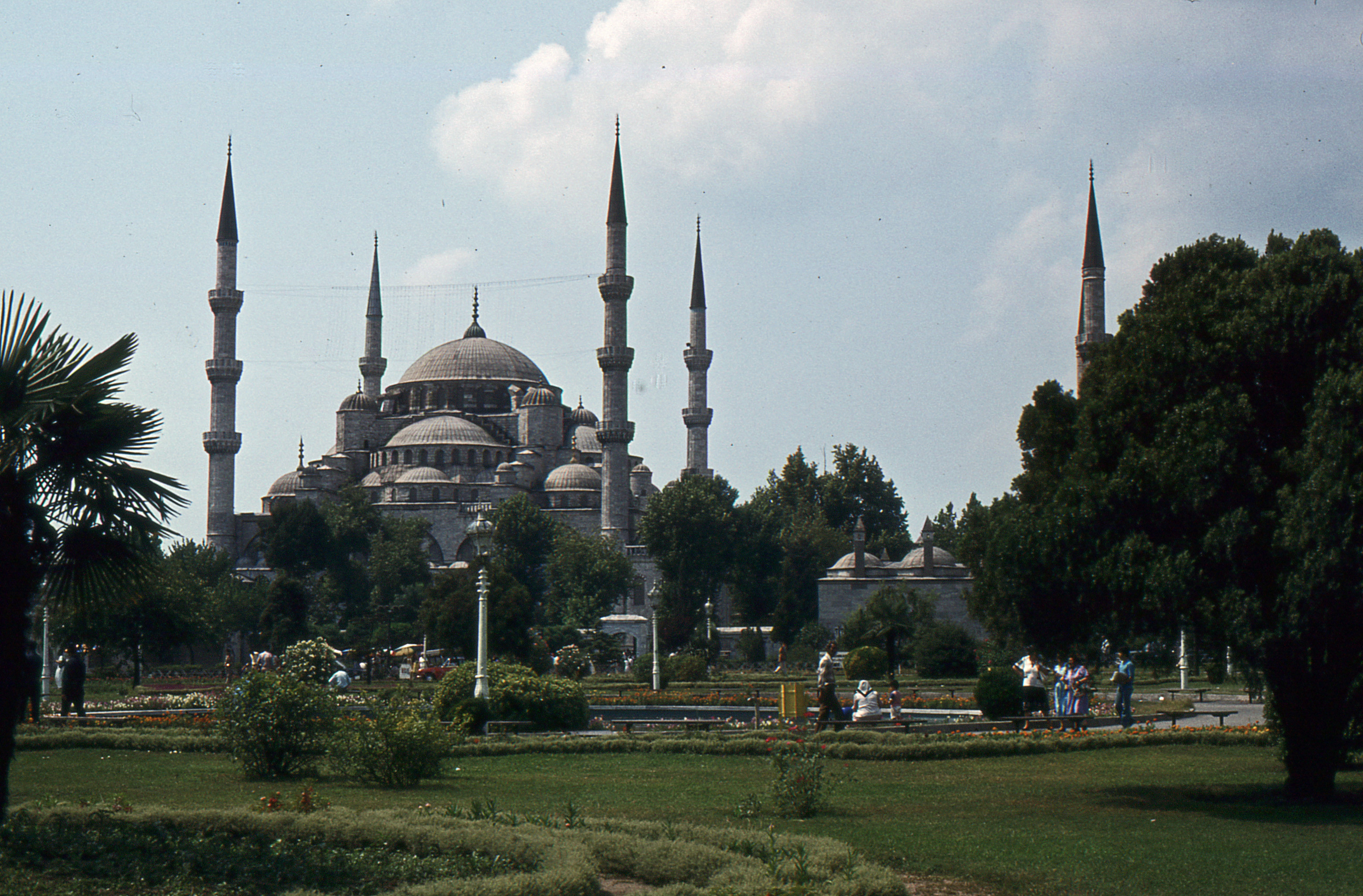 Blue Mosque.